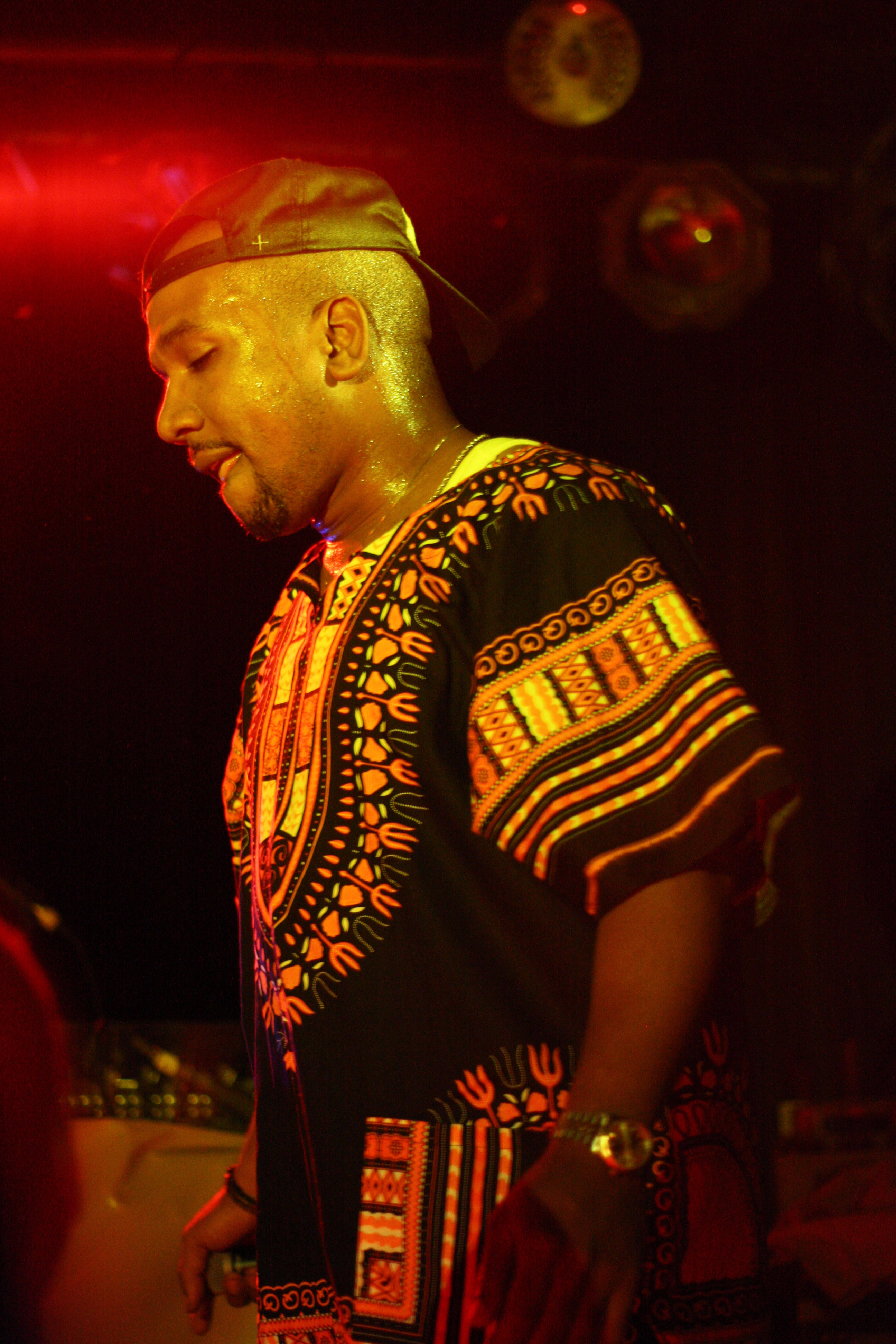 Cyhi The Prynce performing on June 14, 2014